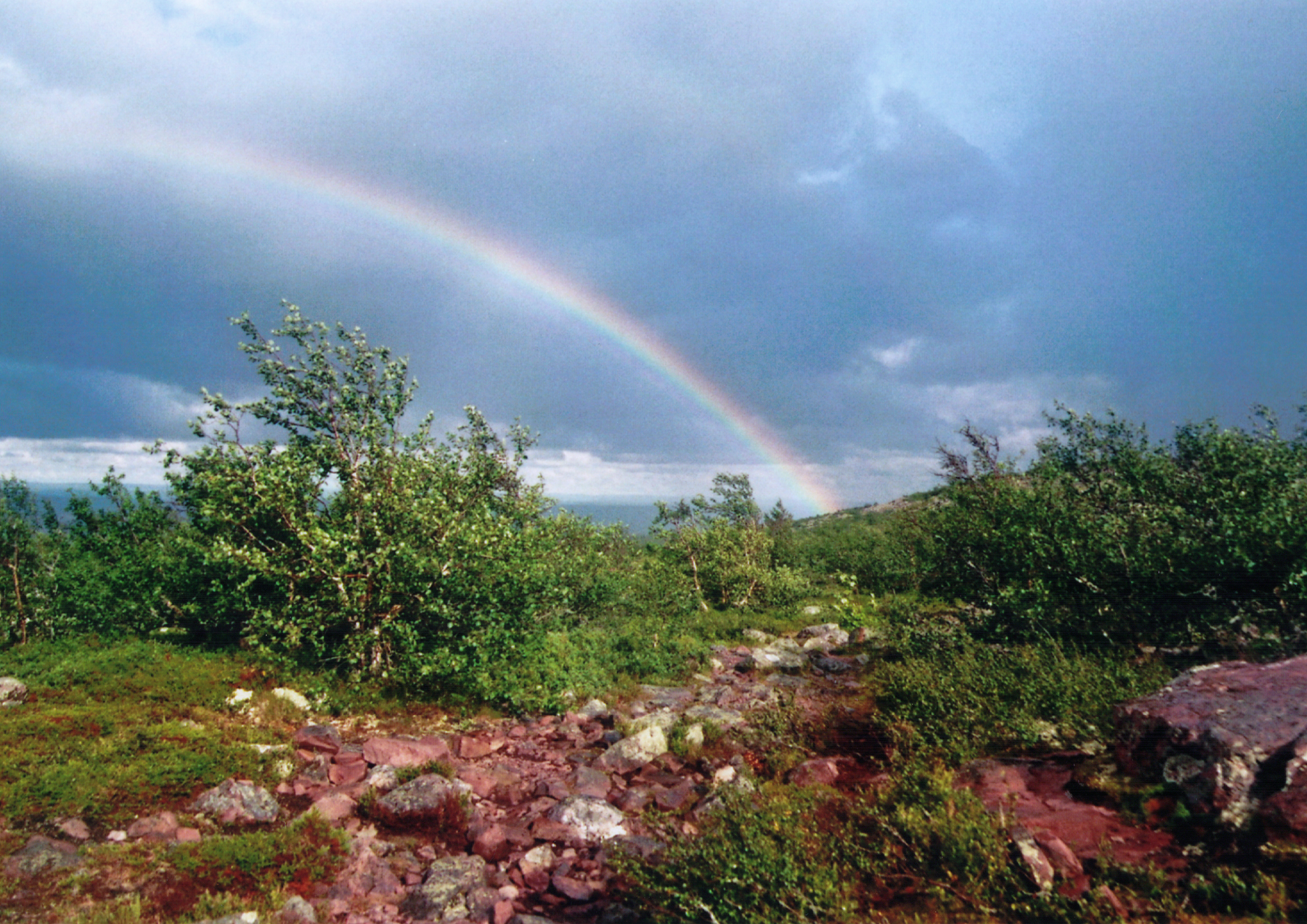 Fulufjäll in Sweden